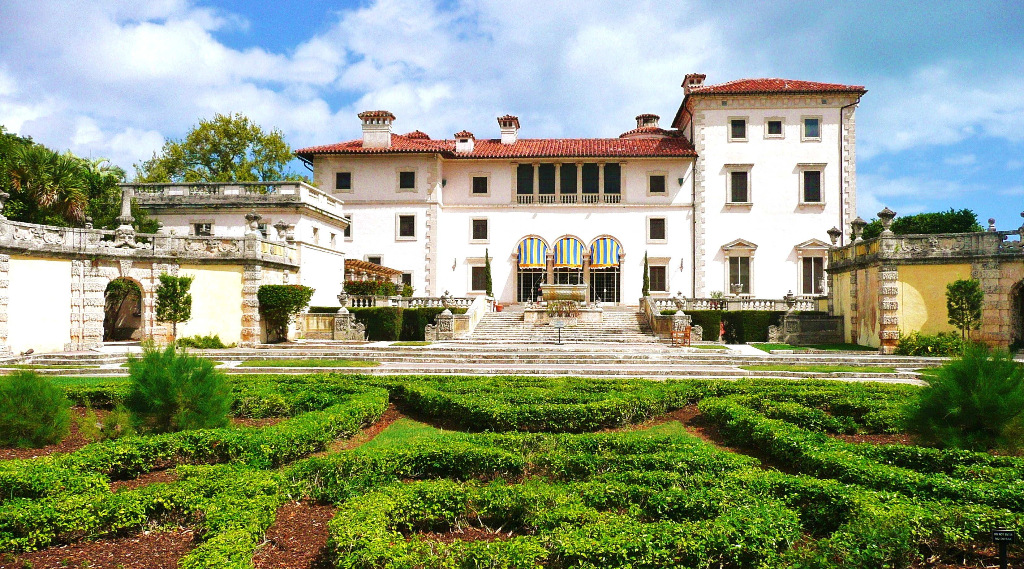 Digital photo taken by Marc Averette. Villa Vizcaya just south of Downtown Miami, Florida, United States.